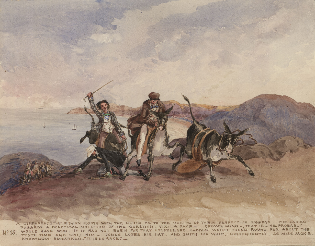 'The Great Orme's Head' - a comic narrative of a group exploring the Head and another comic narrative of 'Llandudno Races'